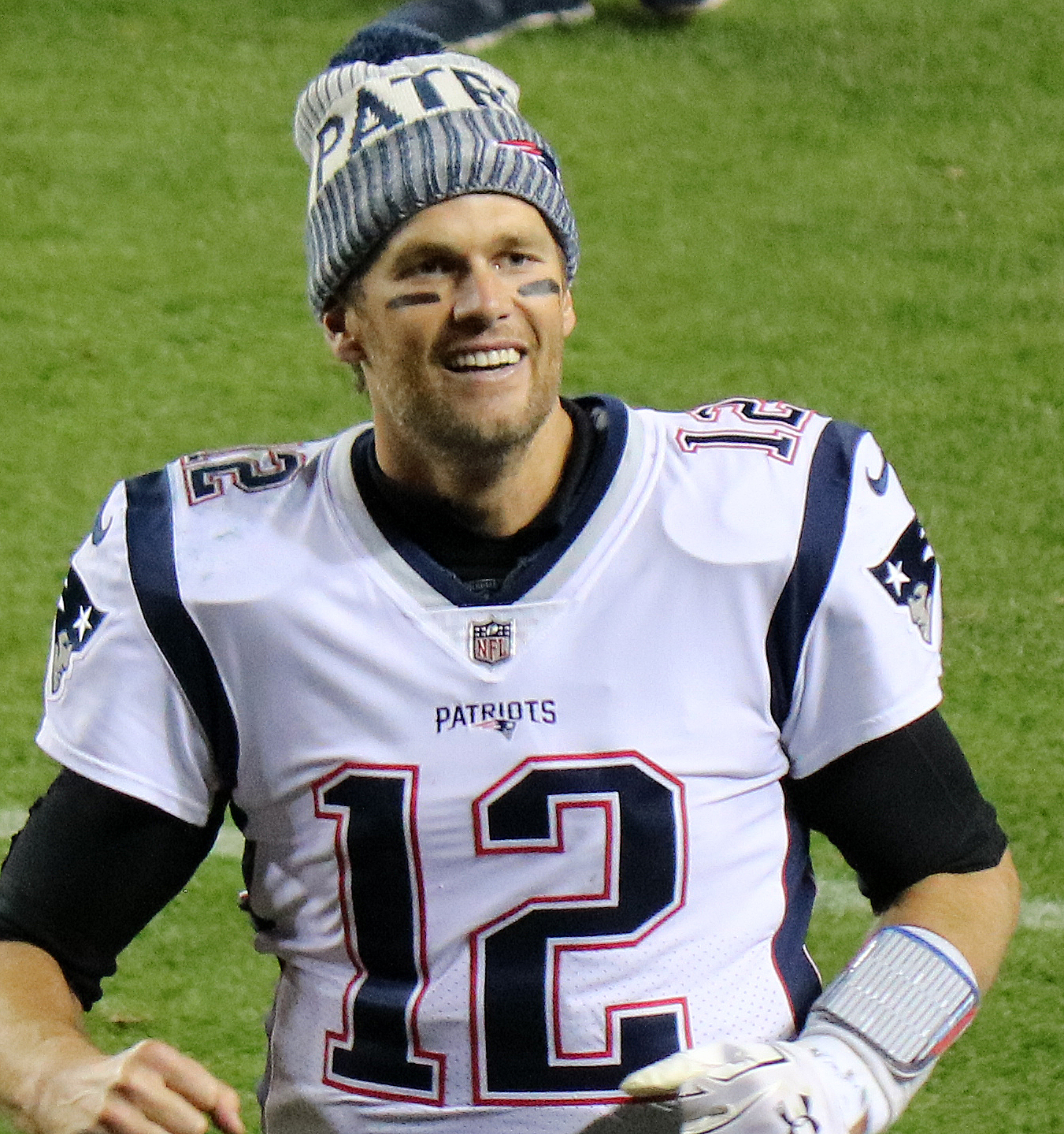 Tom Brady, a National Football League player.